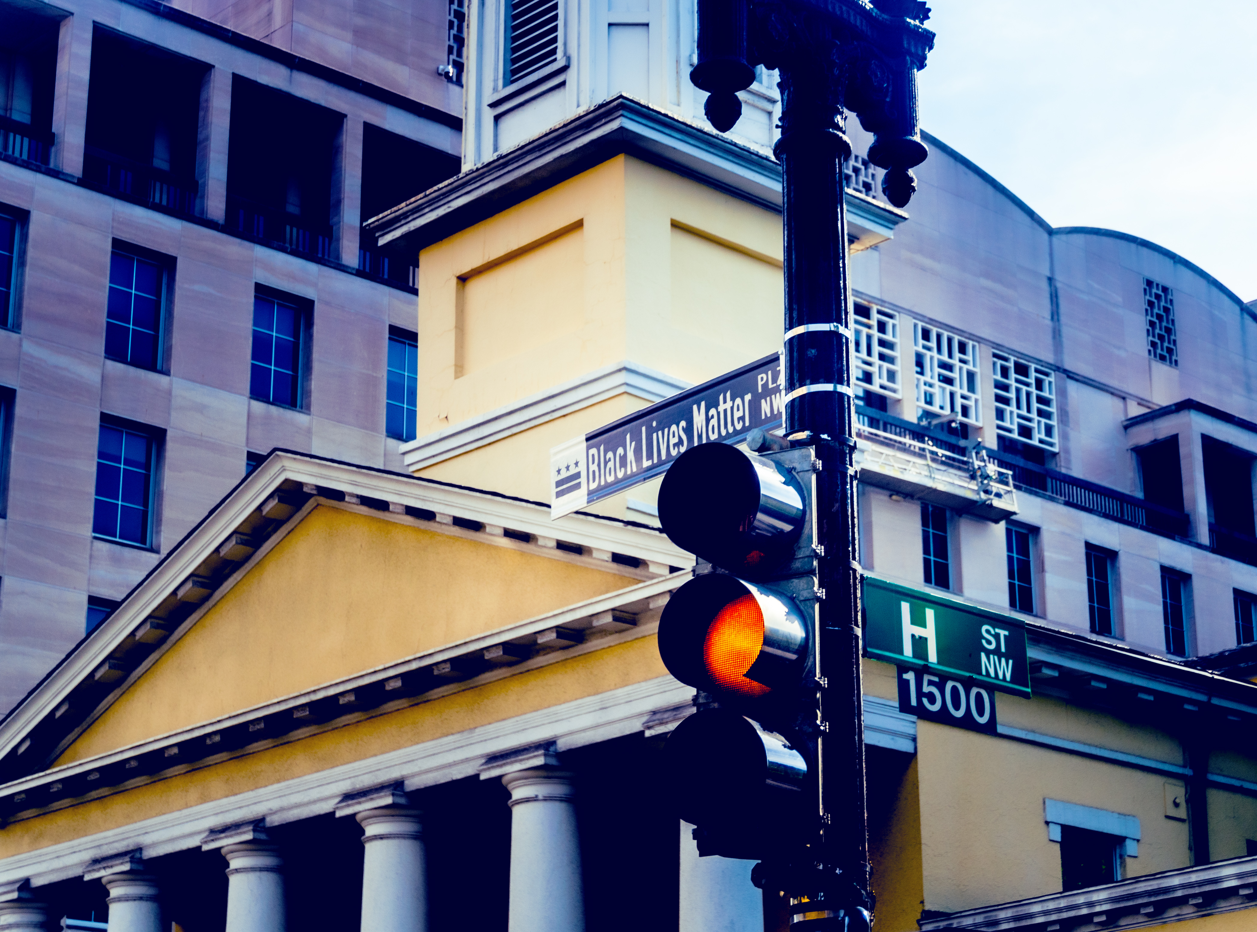 Black LIves Matter Plaza, created by the Government of the District of Columbia, in the wake of the murder of George Floyd